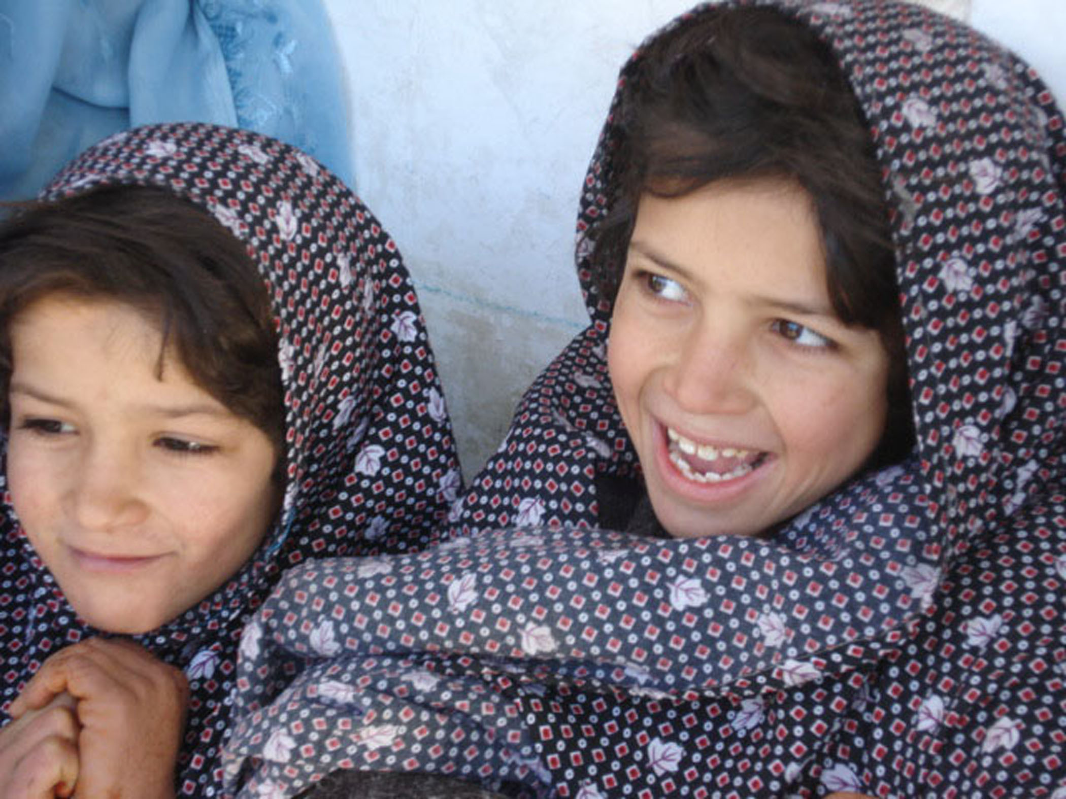 Two young Afghan girls smile as Afghan national security forces and coalition forces arrive to deliver food, toys and clothing to the 380 children of the Sahid Ali Ahad Khan Karzi Orphanage and school, in Kandahar District, Kandahar province, Afghanistan, Dec. 30. Orphanage staff members were also happy to receive rice, beans and cooking oil to fill empty storeroom shelves.